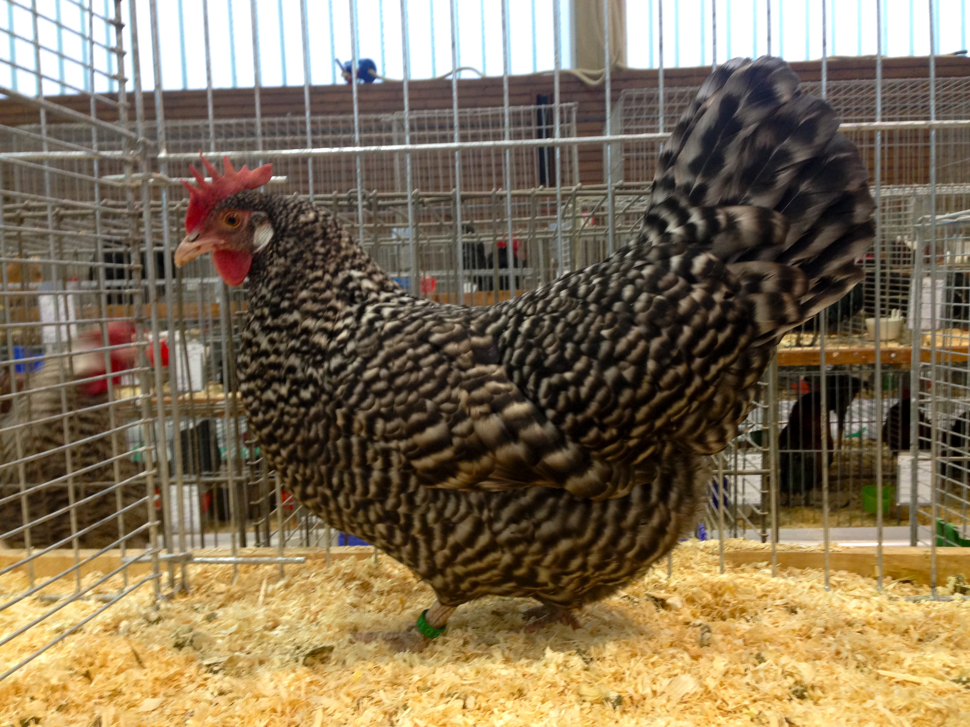 Creeper hen excellent 2014